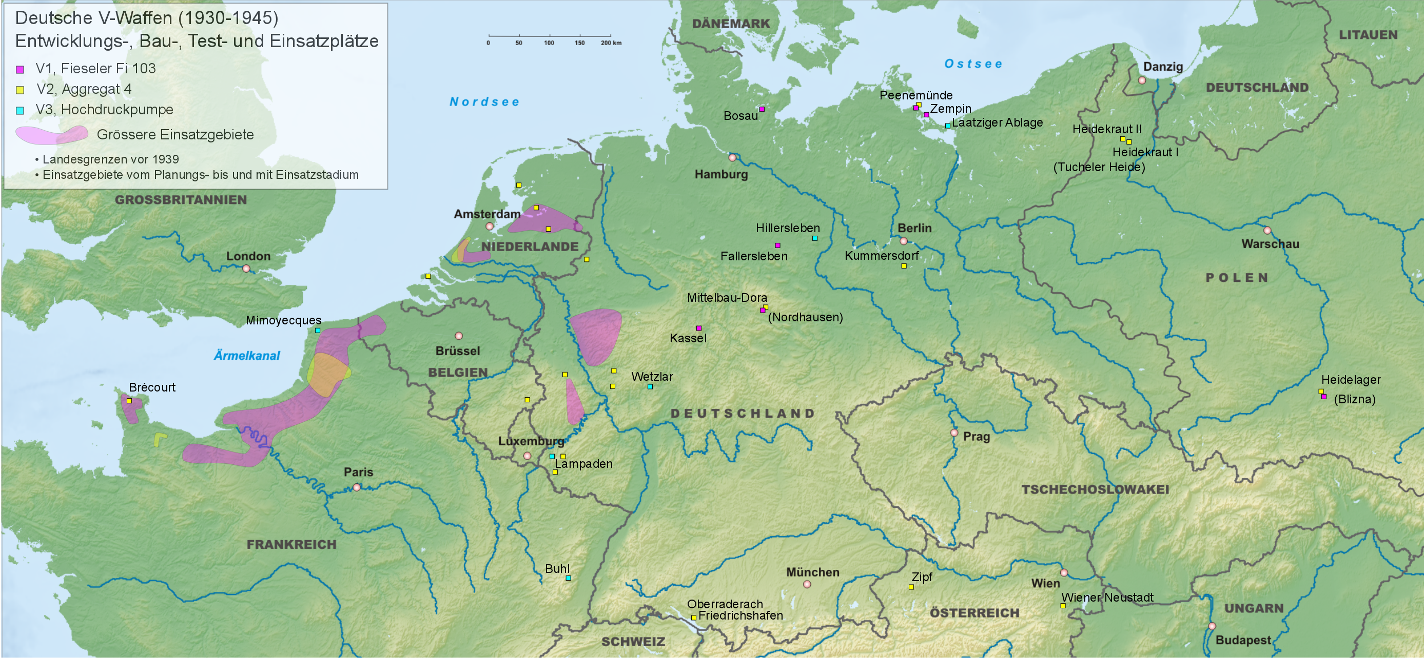 Map of the most important German V-Weapon sites. The map includes development, test and deployment sites of V-1 V-2 and HDP (V-3).